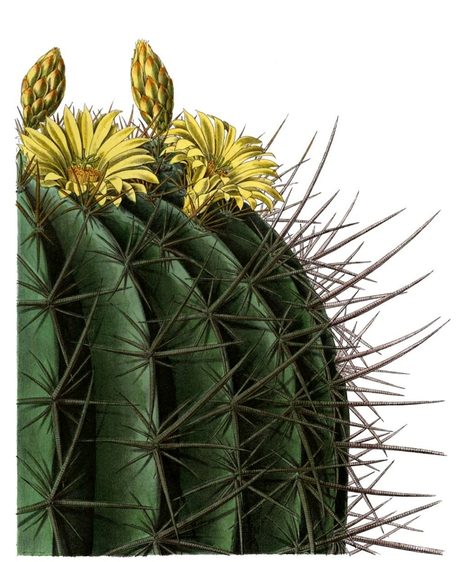 Echinocactus platyacanthus